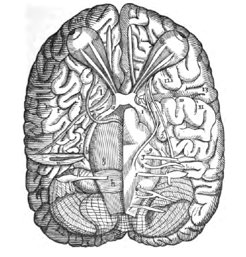 woodcut form De Nervis Opticis in Humano capite by Constanzo Varolio (1543 - 1575)